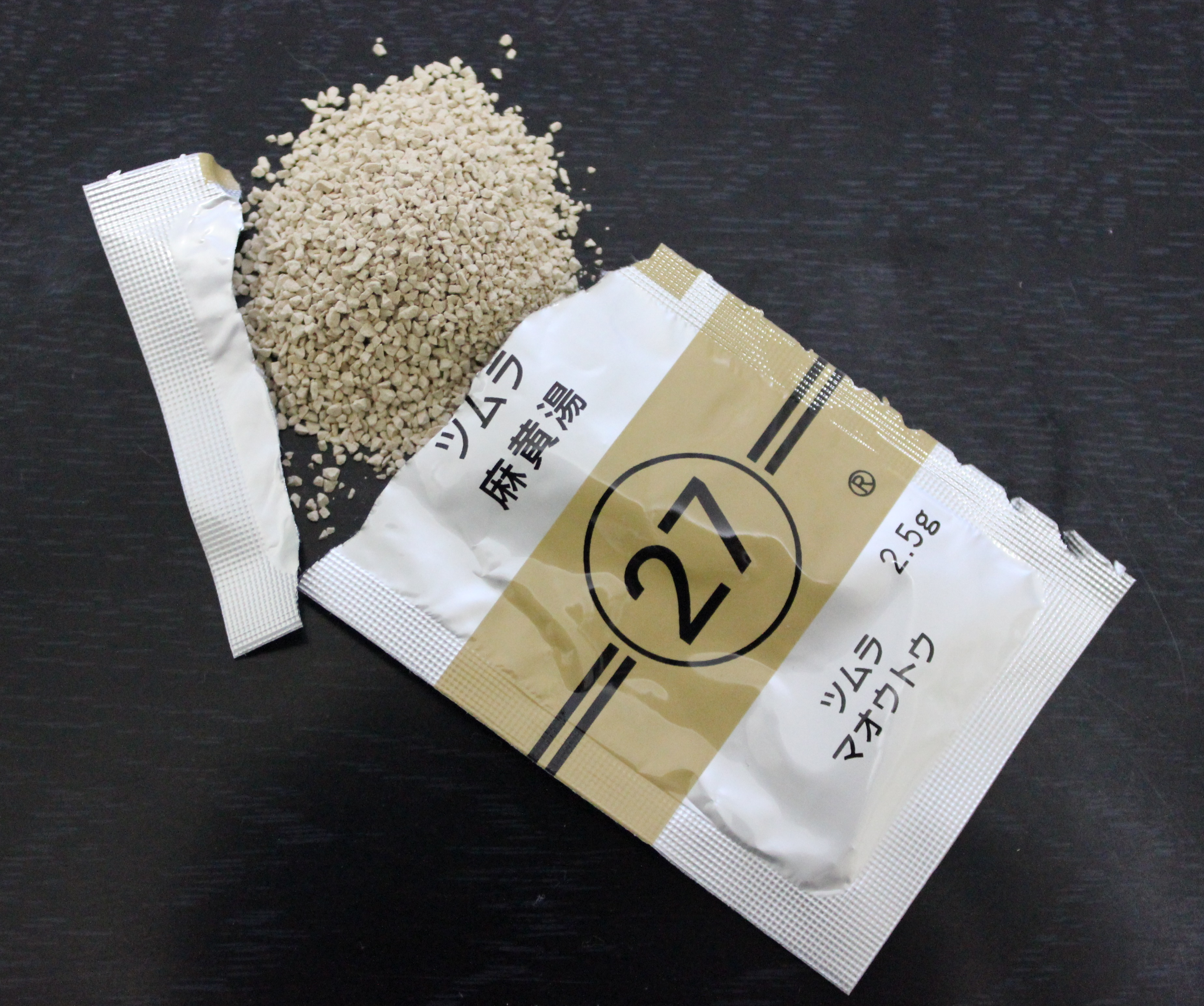 Chinese medicine whose name is Maoutou